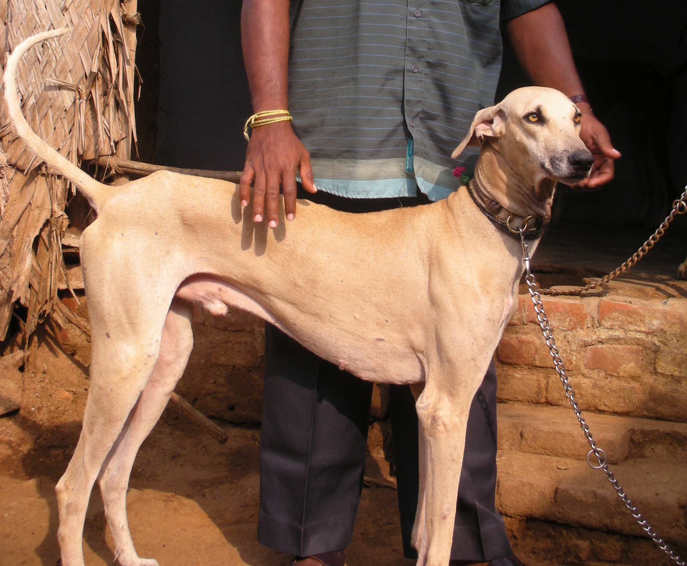 chippi